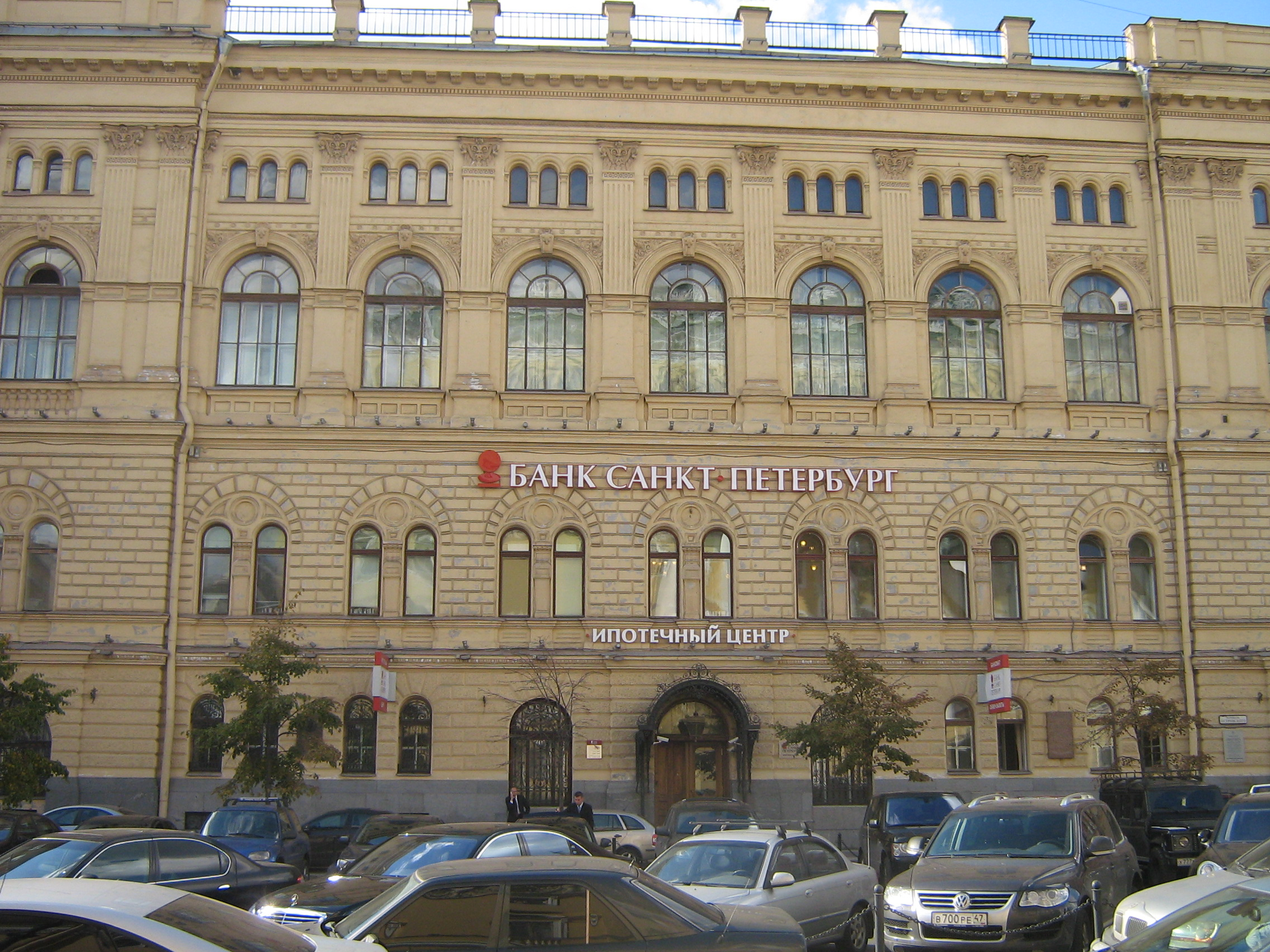 Saint Petersburg (Russia), Nevsky Avenue.